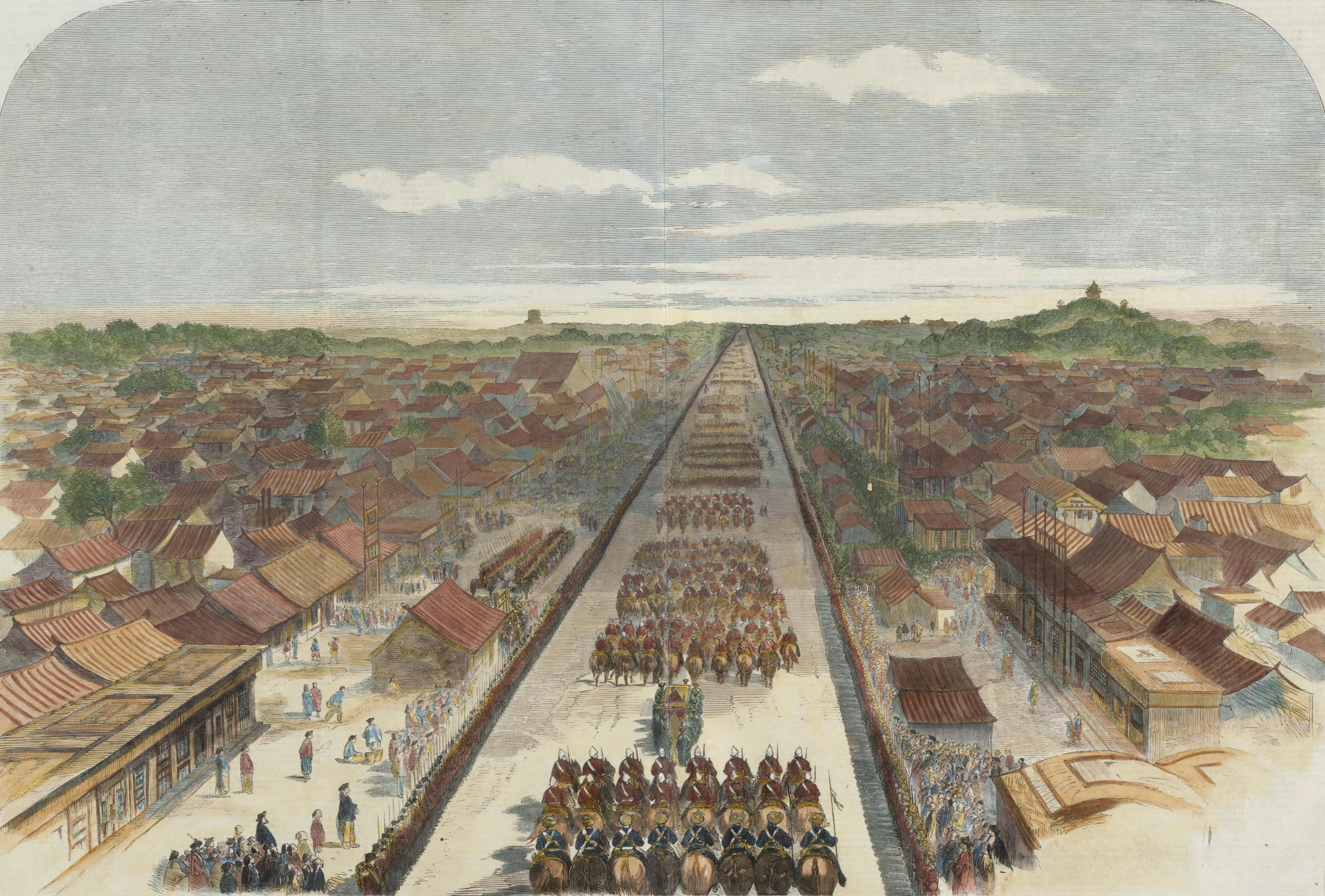 The Earl of Elgin's entrance into Peking on 24 October 1860 to sign the treaty of peace between Great Britain and China. Elgin entered Peking in a sedan chair accompanied by a hundred cavalry and 400 infantry.